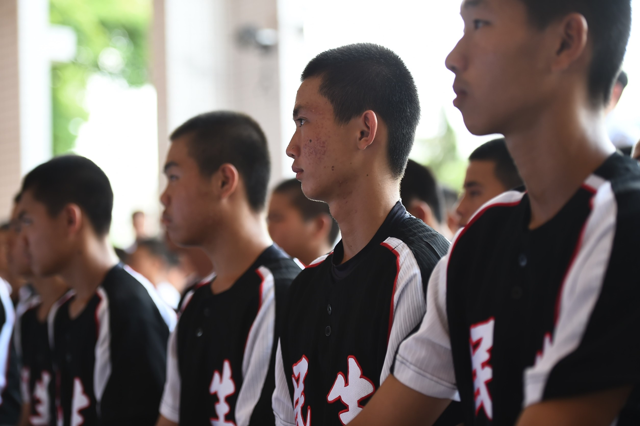 President Tsai travels to Chaiyi City to visit Min-sheng Junior High School and sponsor equipment for the school’s baseball team to express gratitude to them for helping her shoot a campaign video during her presidential election last year. (2016/06/18) 授權方式及範圍：中華民國總統府│政府網站資料開放宣告 Authorization Method & Scope: Office of the President, Republic of China (Taiwan) | Government Website Open Information Announcement